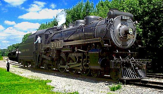 Canadian Pacific #2317 G-3-c series 4-6-2 "Pacific"-type steam passenger service locomotive built at the Montreal Locomotive Works in June, 1923. In service with the CPR for 36 years before being retired in 1959, the road operated a total of 173 of these steam locomotives of which only two survive.